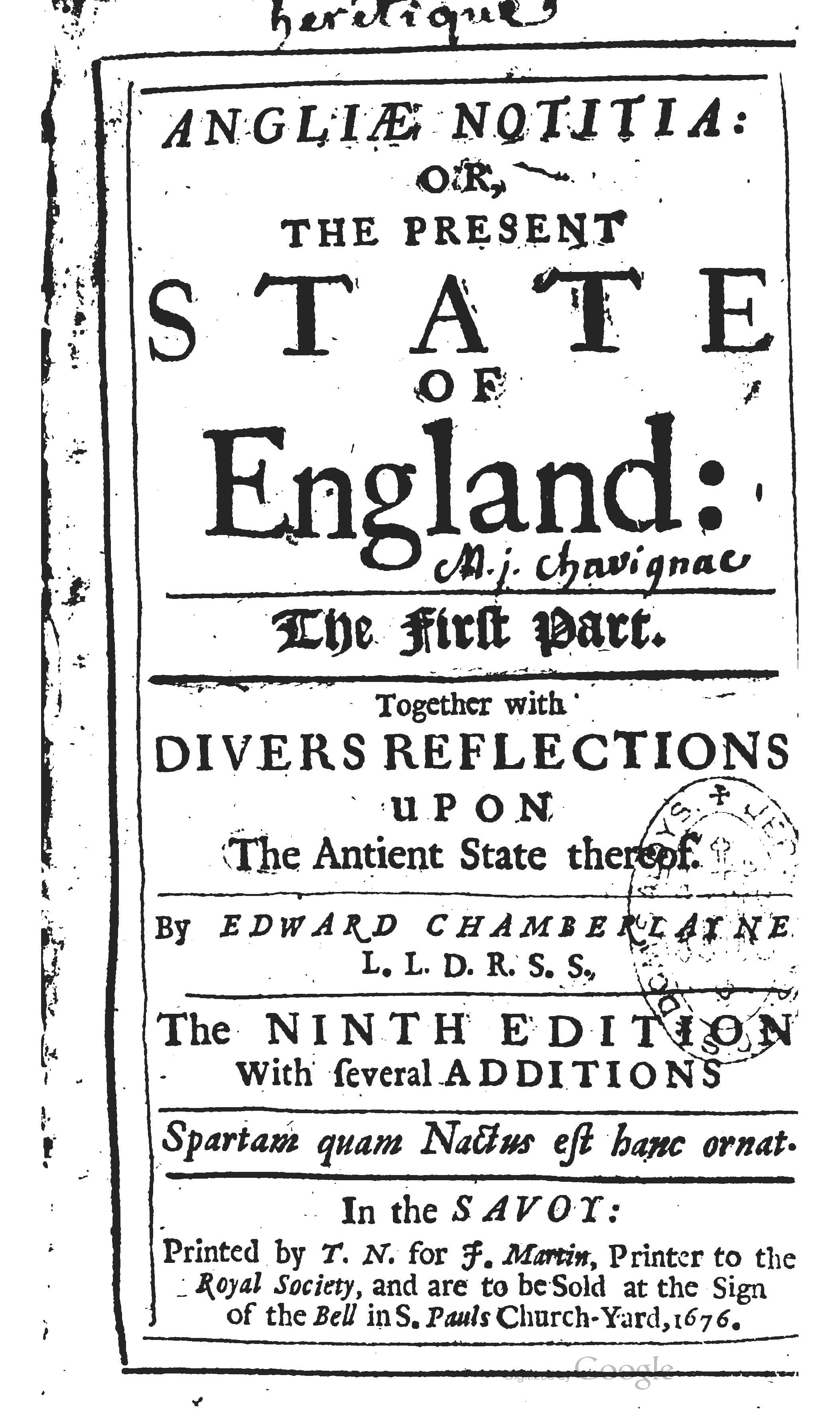 Title page of Edward Chamberlayne (1676) Angliæ Notitia: Or, The Present State of England: the First Part. Together with Divers Reflections upon the Antient State thereof. By Edward Chamberlayne L.L.D. R.S.S. The Ninth Edition with Several Additions (9th ed.), [London], in the Savoy: Printed by T. N. for J. Martin, printer to the Royal Society, and are to be sold at the sign of the Bell in S. Pauls Church-Yard, p. 211 OCLC: 12131668.